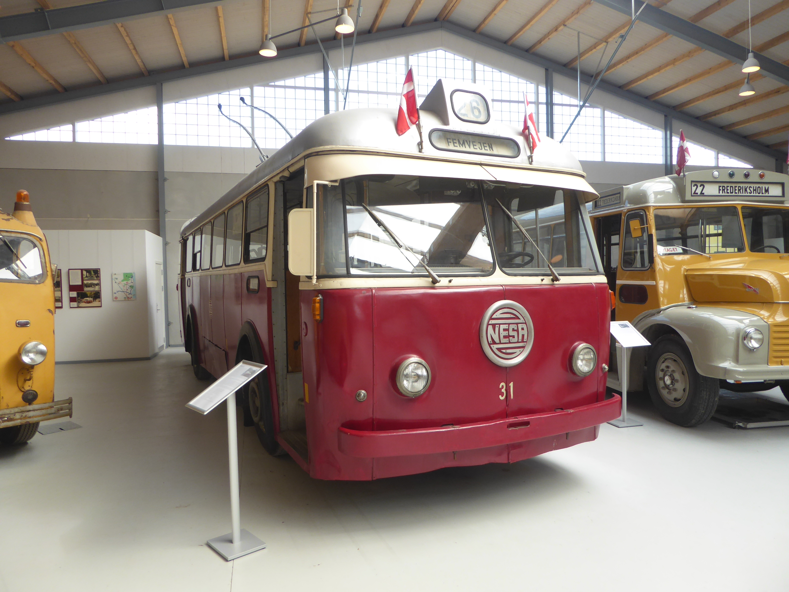 Old trolleybus from Copenhagen, NESA 31 build in 1953, in the new bus exhibition hall at Sporvejsmuseet Skjoldenæsholm in Denmark.